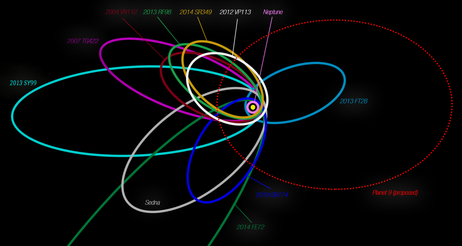 Proposed path of Planet 9 around the sun with Neptune and several notable TNOs for reference.